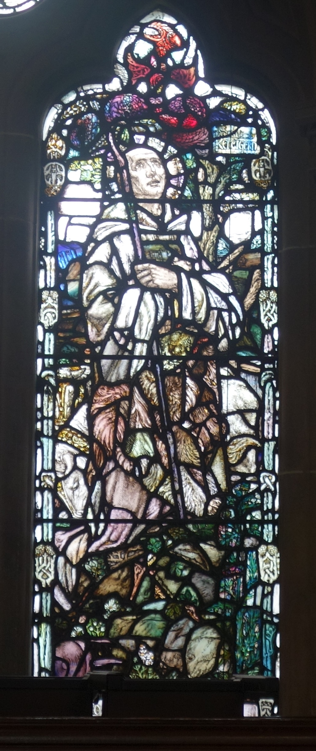 Stained glass windows in Bute Hall, University of Glasgow. Robert Story Memorial Window, by Douglas Strachan, placed in the Bute Hall of Glasgow University on 21 Oct. 1909. Saint Kentigern (=Saint Mungo)